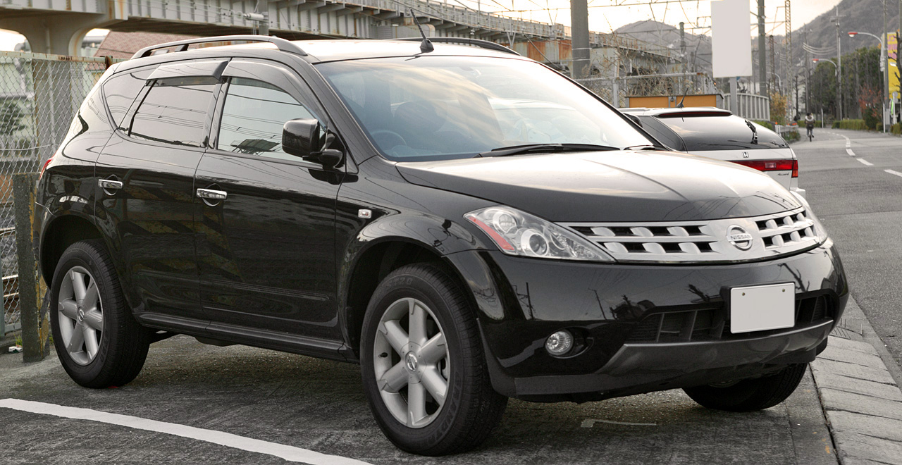 Nissan Murano ( Z50 )